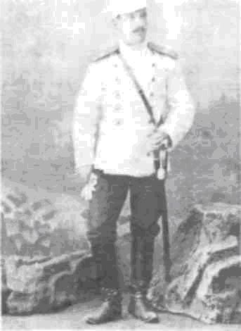 IMARO revolutionary/ies